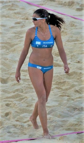 2012 Summer Olympics, beach volleyball, quarter final USA vs Italy, Marta Menegatti